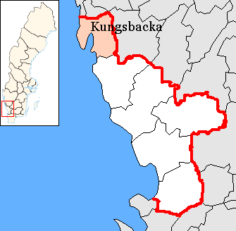 Kungsbacka Municipality in Halland County Designd by me, based on Image:Halland County.png